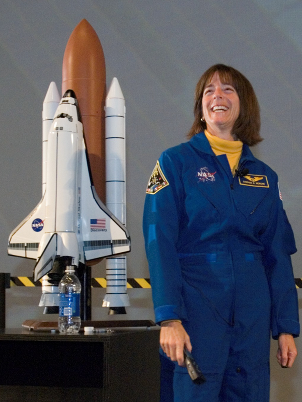 JSC2007-E-03686 (19 Jan. 2007) --- Educator astronaut Barbara Morgan (left) and Canadian Space Agency astronaut Dafydd R. (Dave) Williams speak to an audience of students and media during a demonstration at Space Center Houston. Morgan has been named as a crew member for the STS-118 mission, scheduled to launch in the summer of 2007. US NASA. (Cropped to fit)